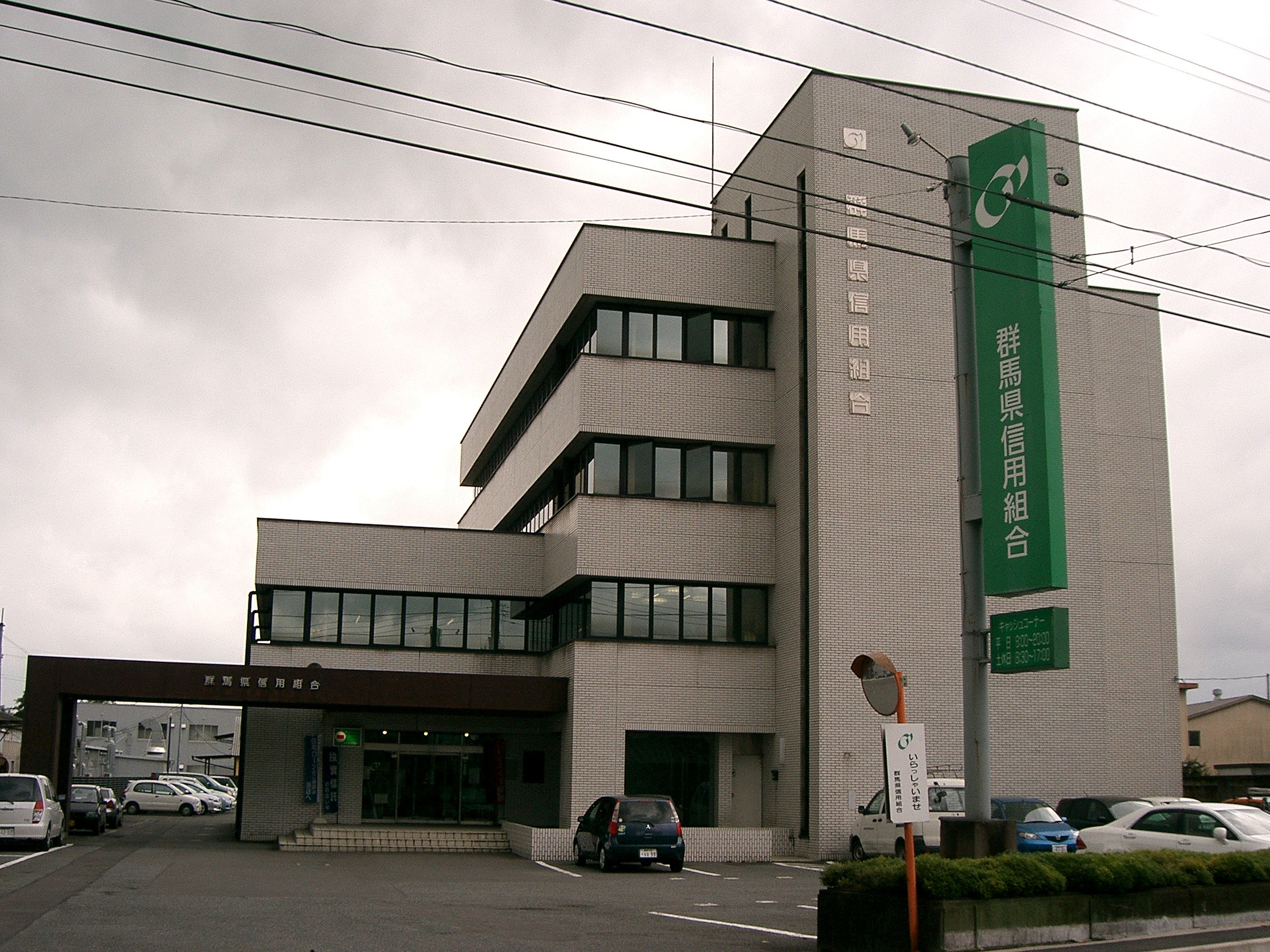 Head office of Gunmaken Credit Union